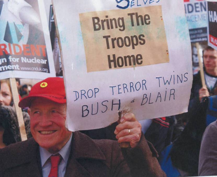 Bertie Lewis on an anti-war march